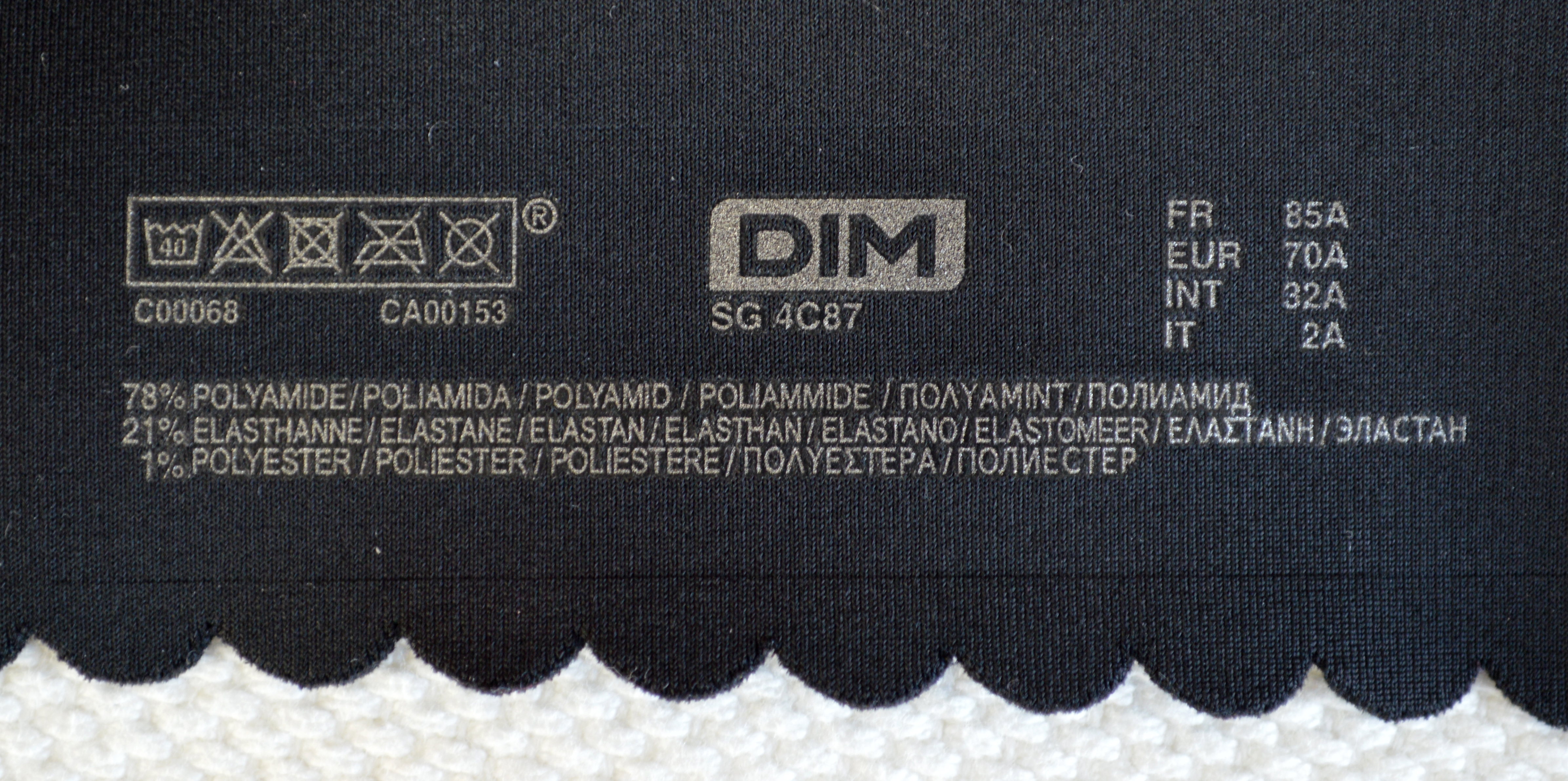 Seamless black T-shirt bra, label